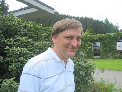 Benoît Perthame